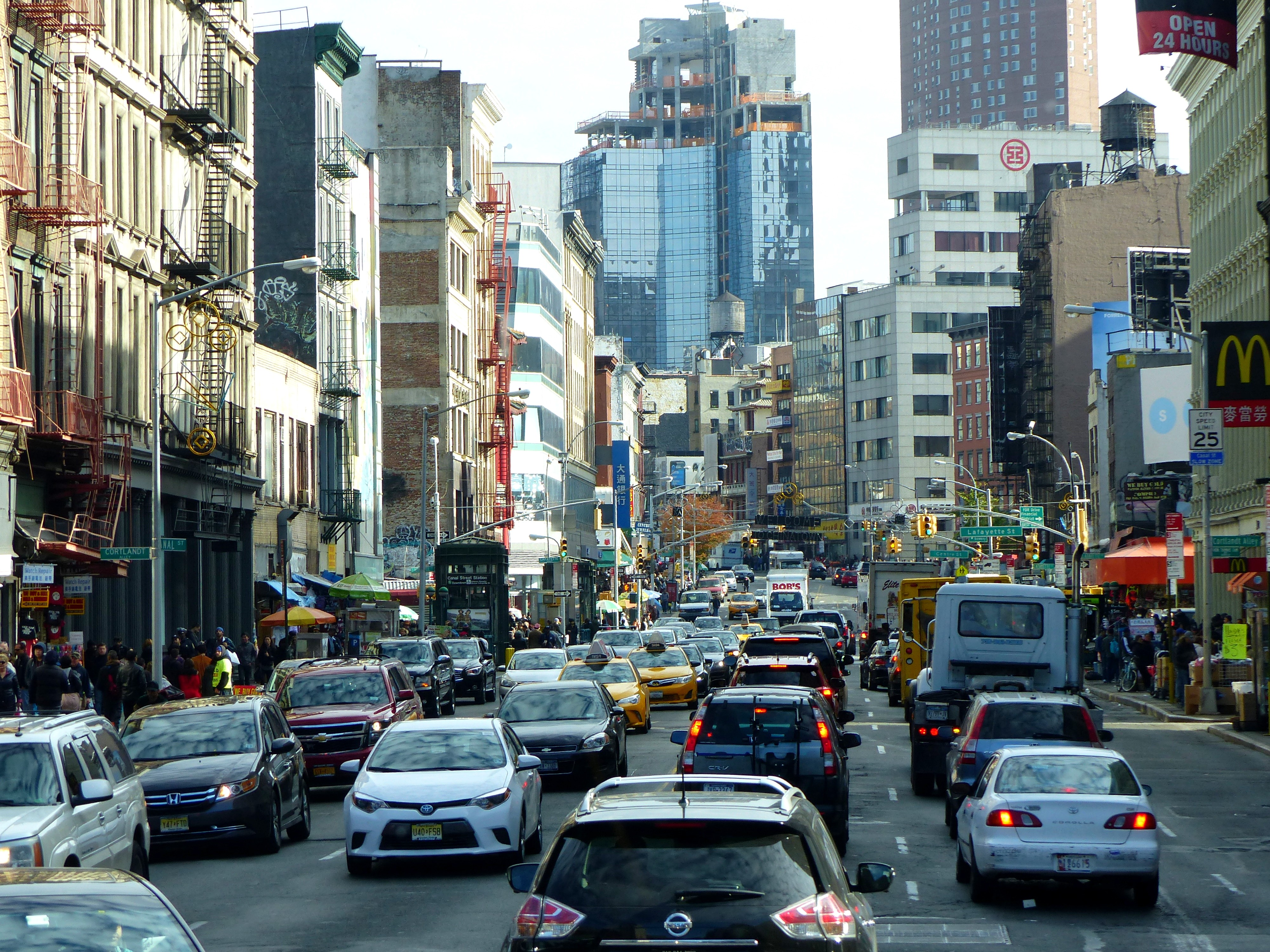 NYC – Chinatown – Little Italy - Canal Street